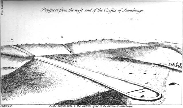 Stonehenge Cursus. West end.